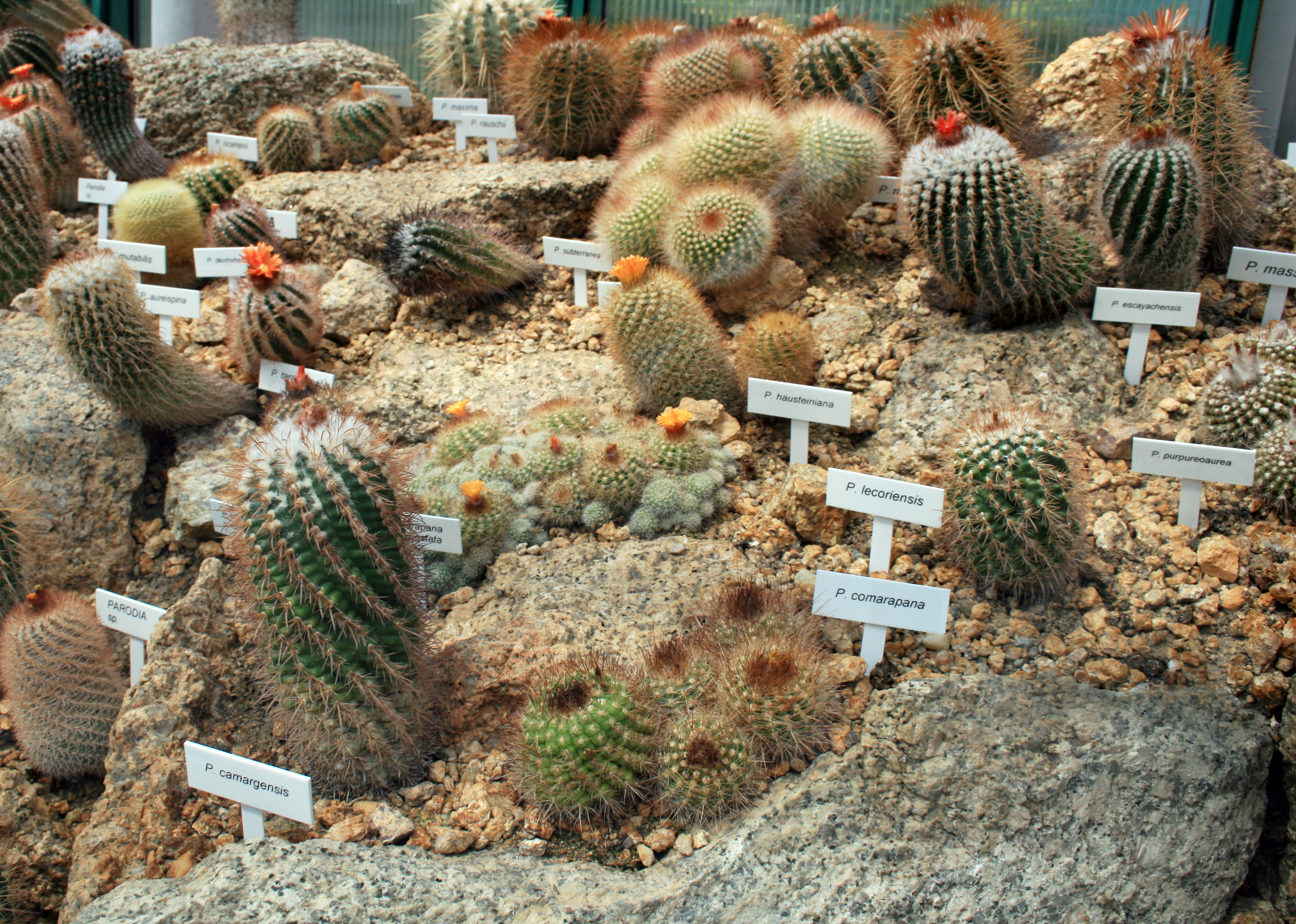 Several cactuses of genus Parodia Parodia camargensis, Parodia comarapana, Parodia lecoriensis, Parodia hausteiniana, Parodia purpuroaurea (Parodia purpureoaurea = synonym of Parodia microsperma) and Parodia escayensis (Parodia escayachensis = syn. of Parodia maassii) in Botanical Garden Liberec, Czech Republic